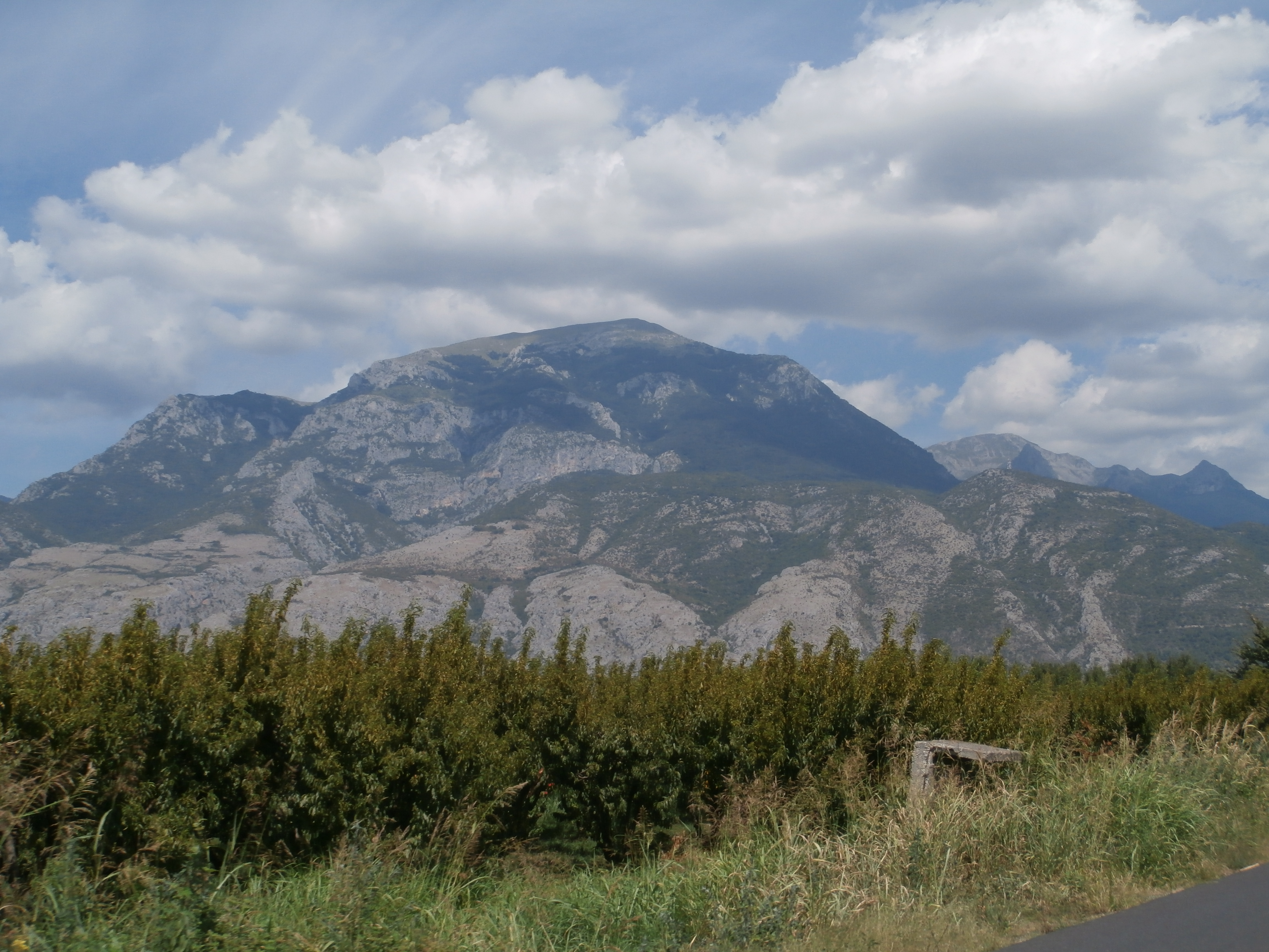 Pinovo, view from S-SW